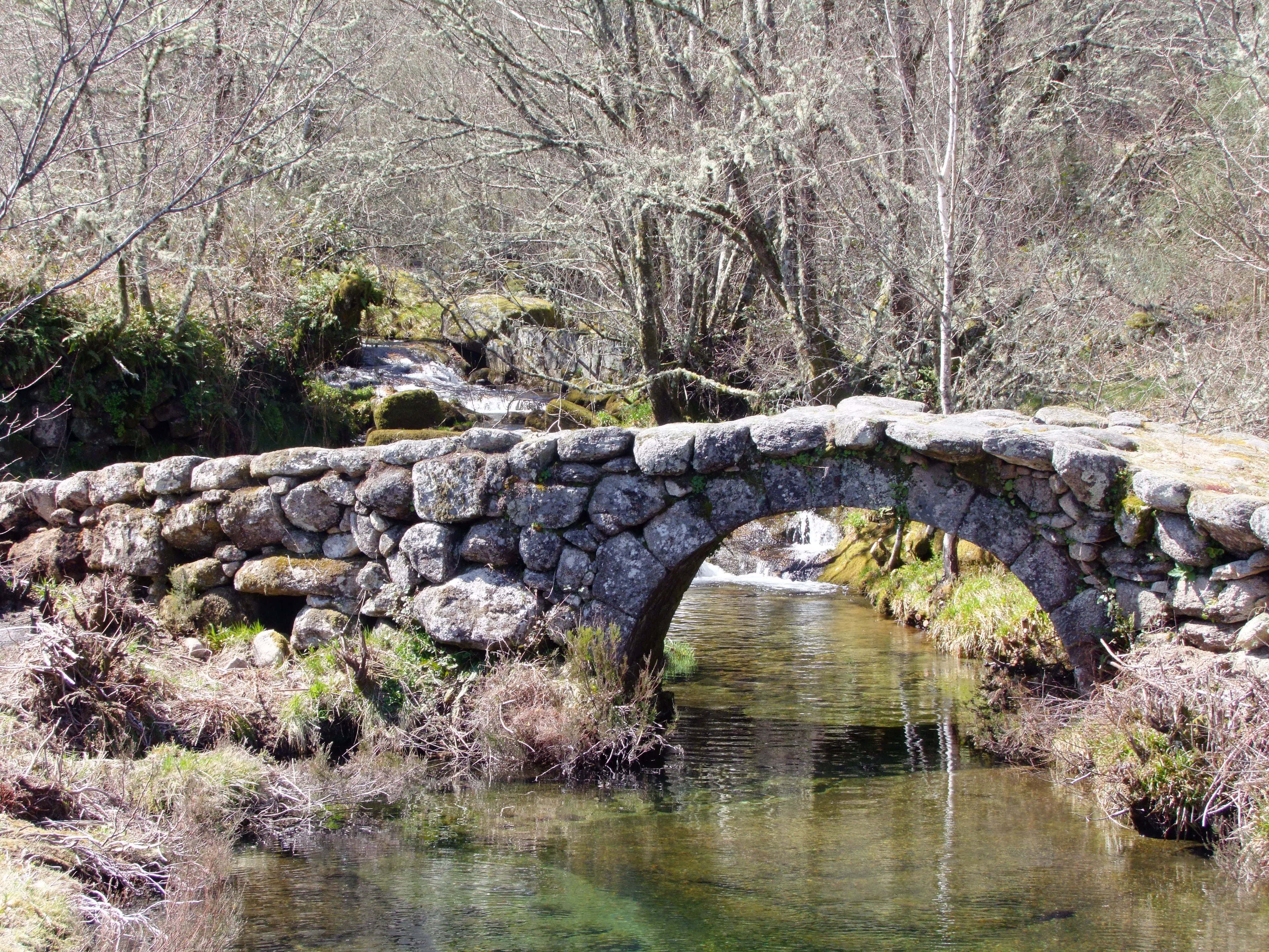 Bridge of Dorna over the brook of Dorna.